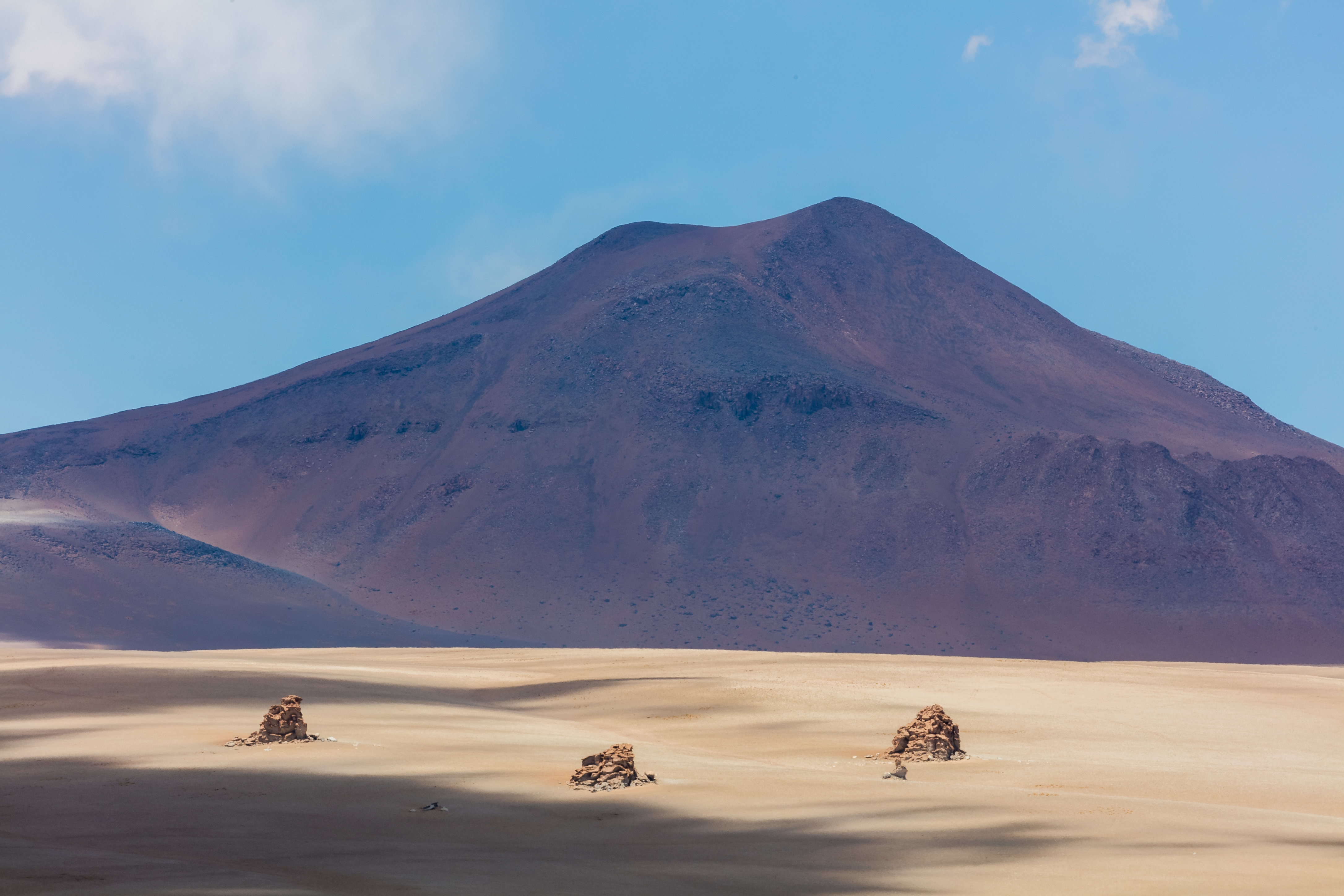 Dalí Desert, Bolivia